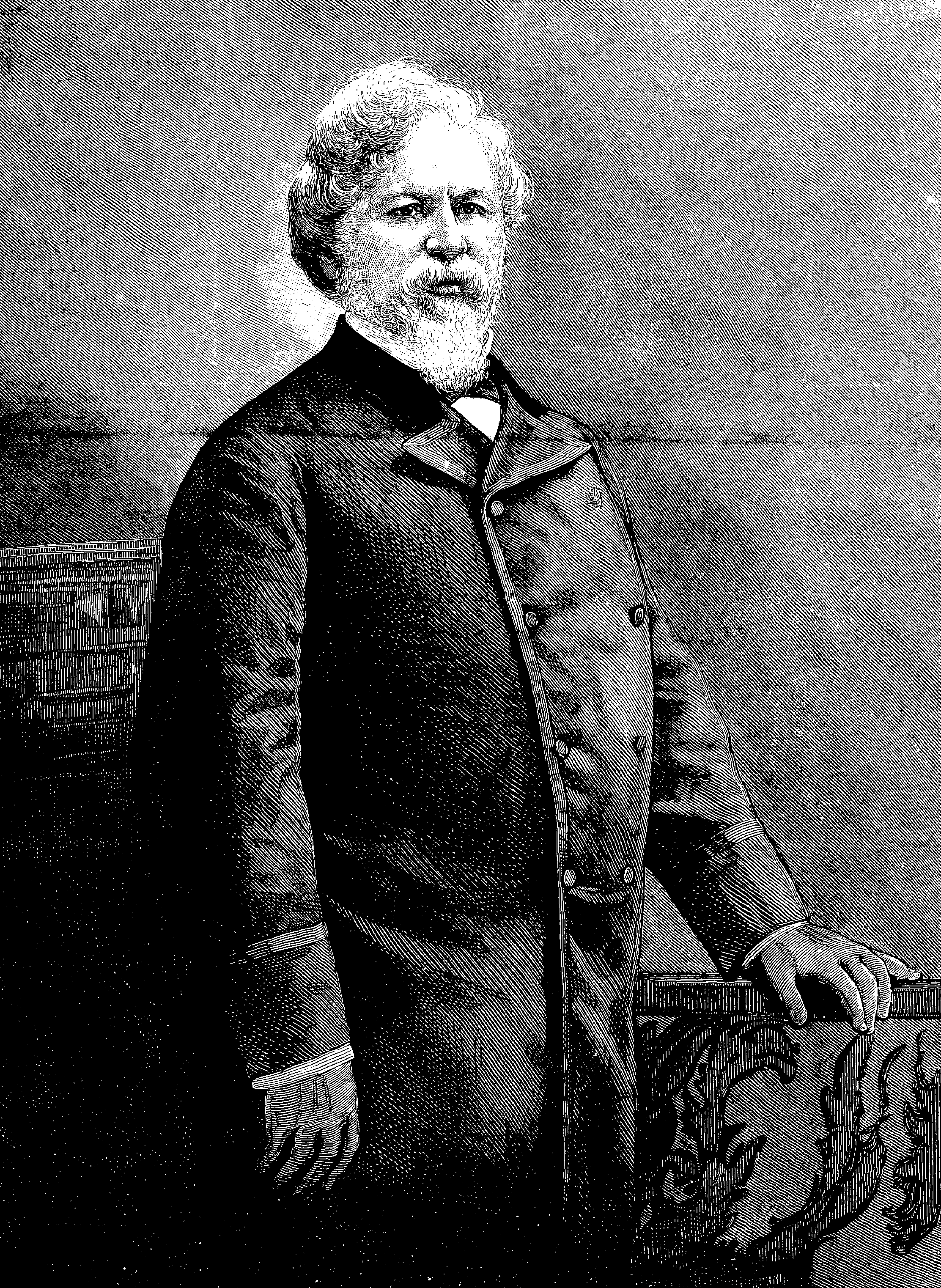 Portrait wood engraving of editor and publisher Frank Leslie.